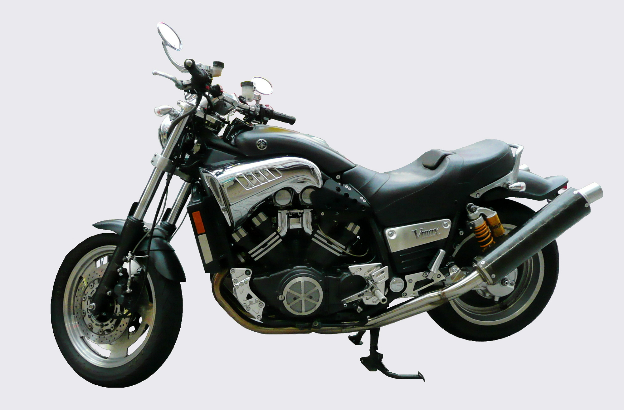 YAMAHA Vmax (customized)